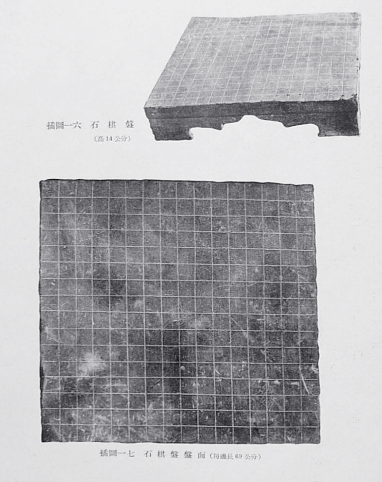 Stone Go Board excavated from the tomb in Wangdu County, Hobei province, China ACE 2nd centuiry, Han Dynasty, China This is regarded a model for Real Go Board for the funeral.